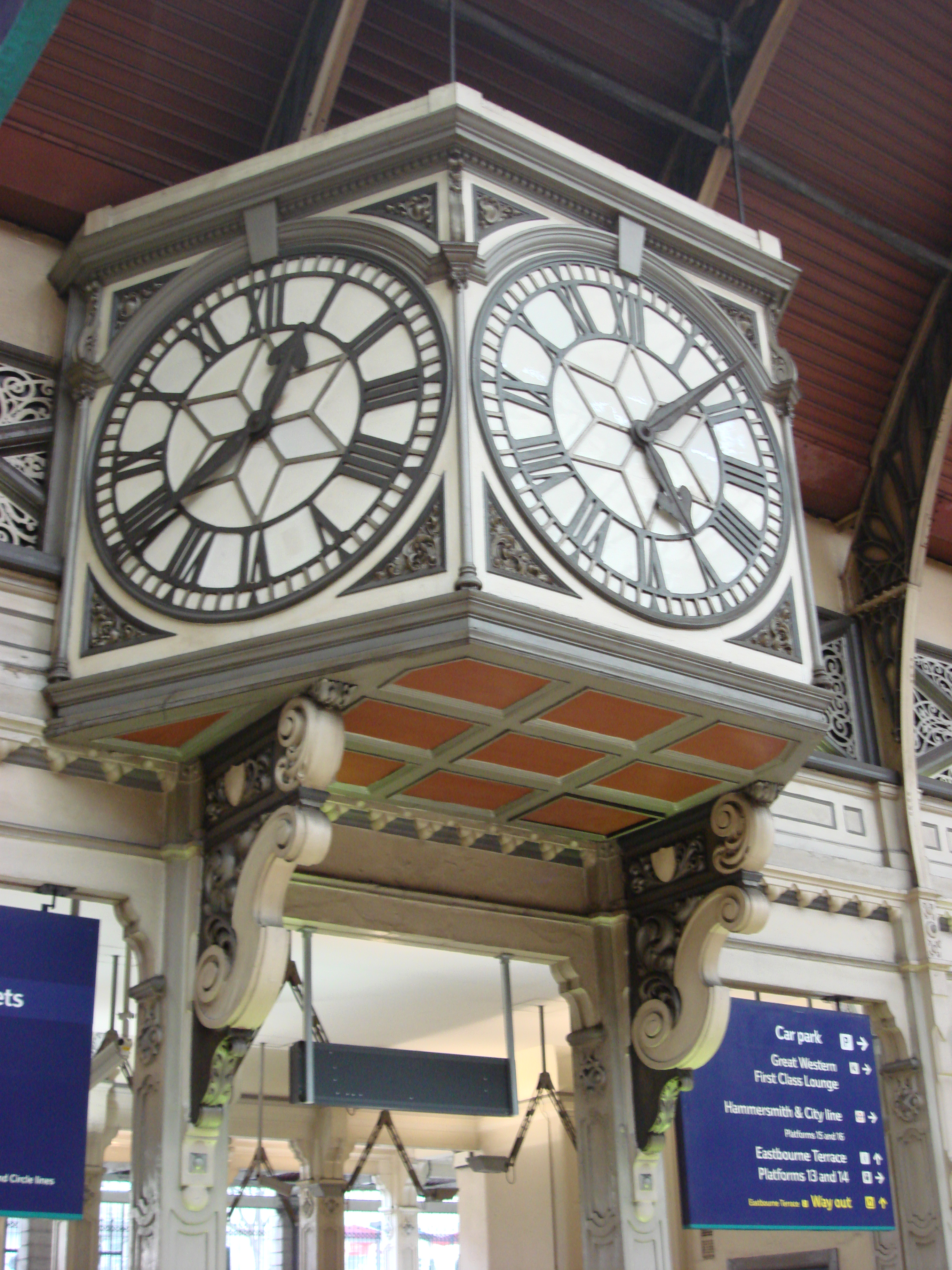 Clock at Paddington station